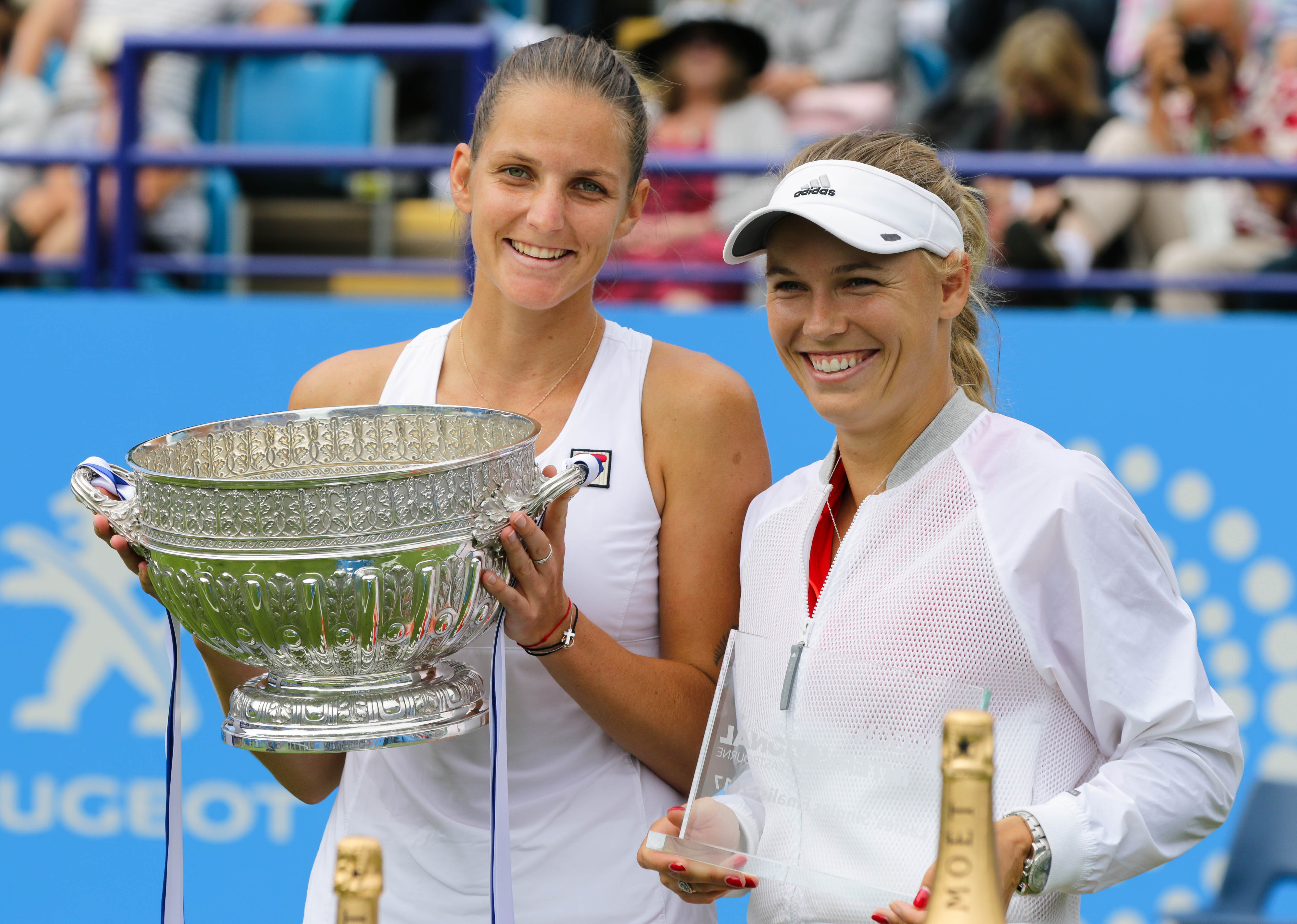 Aegon International Women's Final 2017 Pliscova v Wozniacki-861.jpg